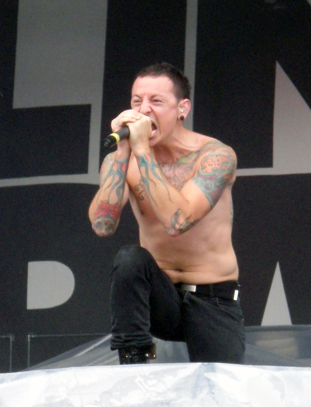 Chester Bennington from Linkin Park performing at Sonisphere Festival in Kirjurinluoto, Pori, Finland.